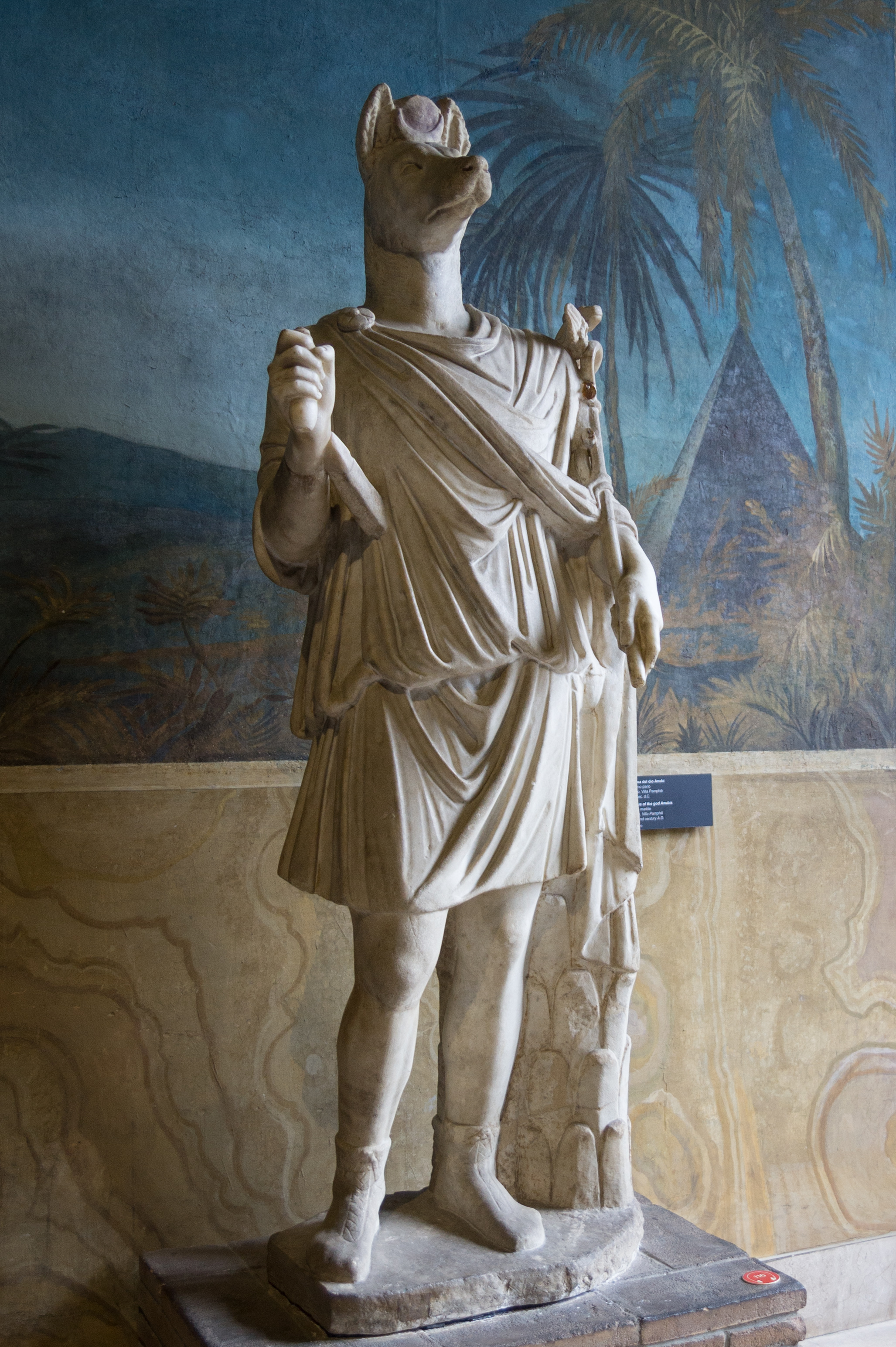 Statue of the god Anubis. 1.55m tall in white Marble. On display in room IV of the Gregorian Egyptian Museum.[1] Vatican Museums Native nameMusei VaticaniLocationVatican CityCoordinates41° 54′ 23″ N, 12° 27′ 16″ E Established1506Web page control : Q182955 VIAF: 141443926 ISNI: 0000 0001 0807 3165 GND: 235092-0 SUDOC: 032013795 BNF: 12312427s